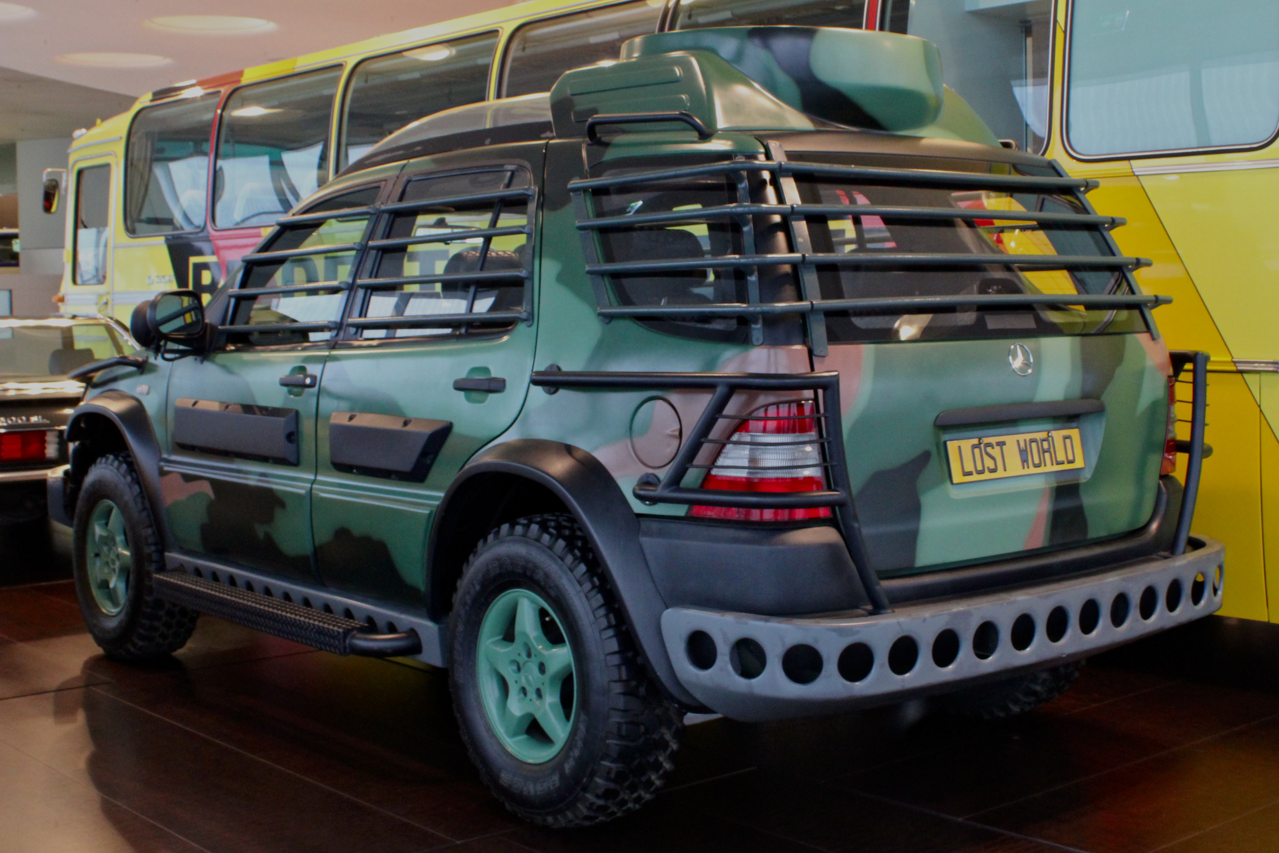 Mercedes-Benz ML 320 (Jurassic Park) in the Mercedes-Benz Museum in December 2018